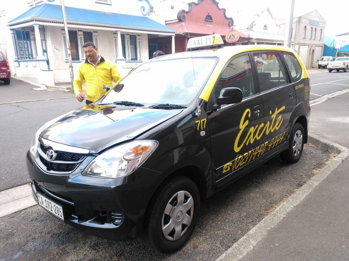 Cape Town Observatory Taxi Cab